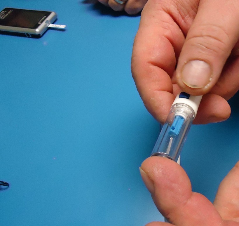 A diabetic taking a blood sample to test for glucose levels in the bloodstream.